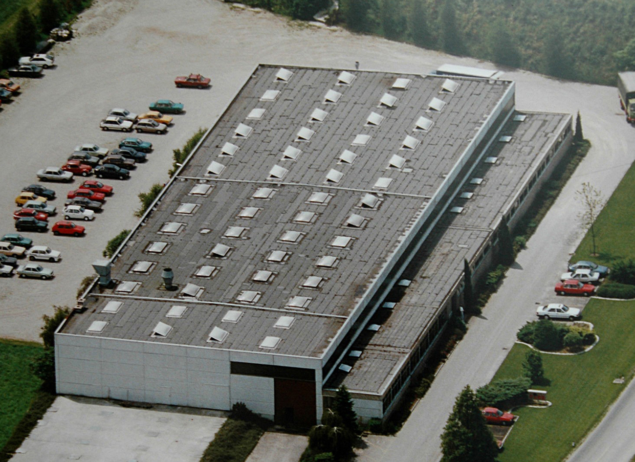 Fill 1972, 25 employees